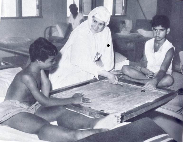 Salesian sister playing carrom with children in India